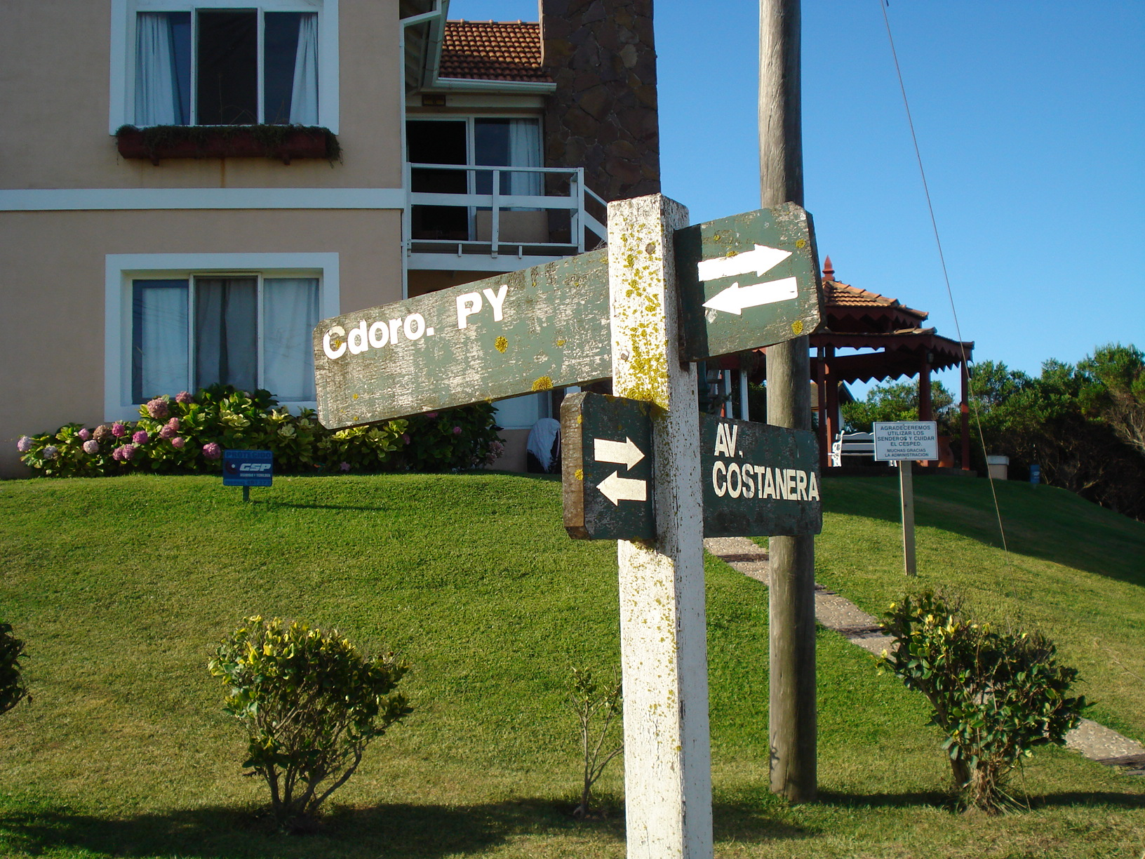 Comodoro Py street in Valeria del Mar, Buenos Aires province, Argentina.